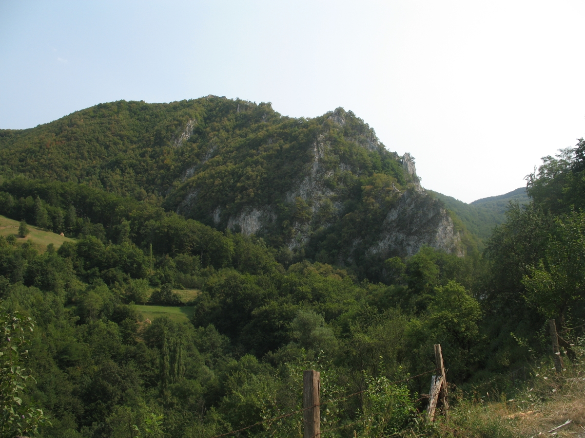 View on remains of Solotnik Fortress above village of Solotuša, near Bajina Bašta on Drina, Serbia.